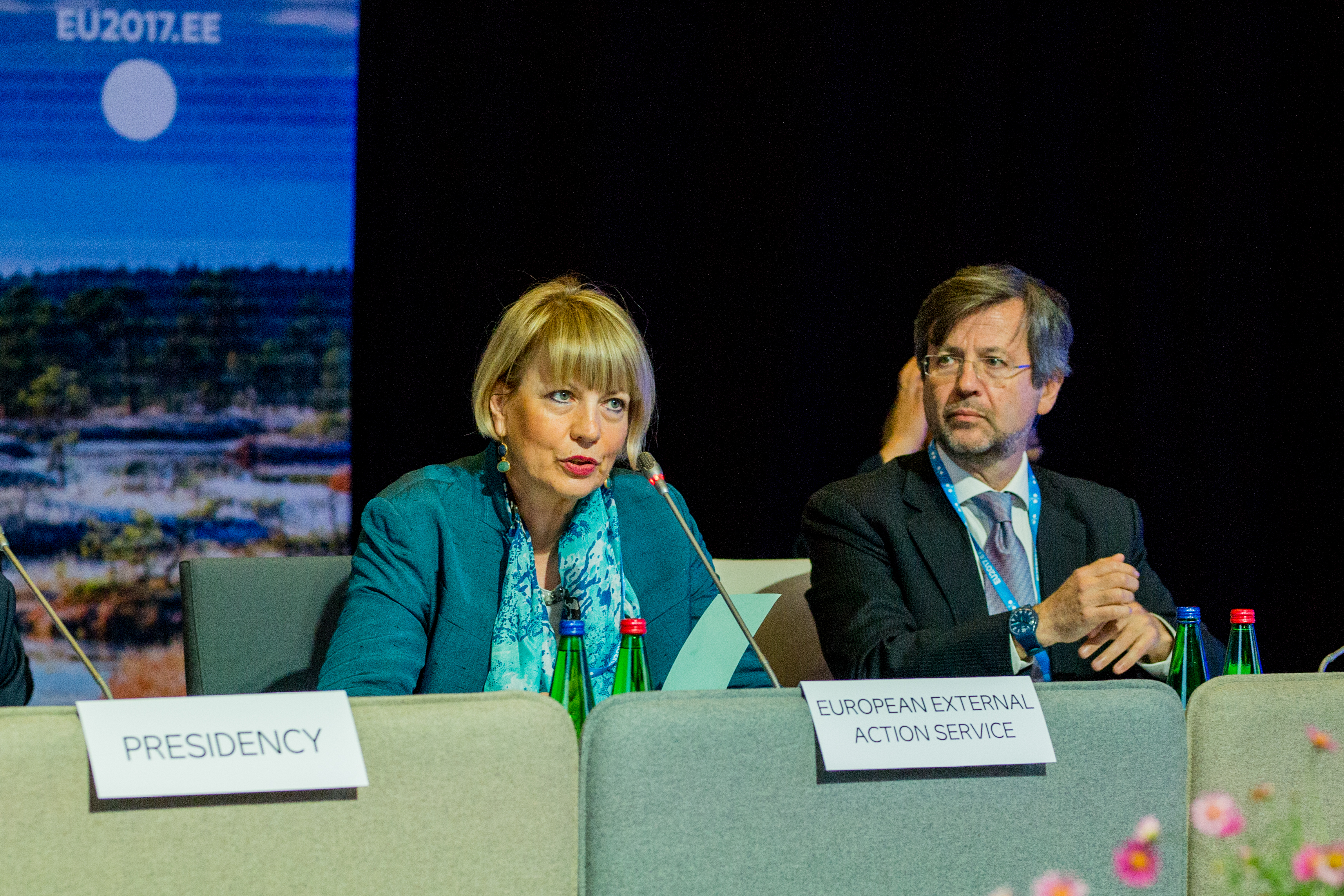 Ms Helga Schmid, Secretary General, European External Action Service